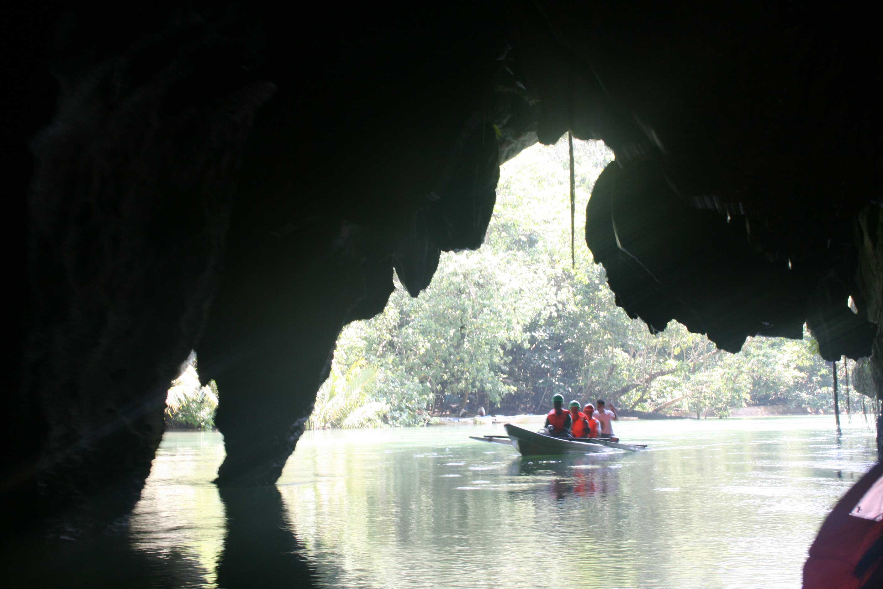 A group of tourists prepare to enter the Underground River